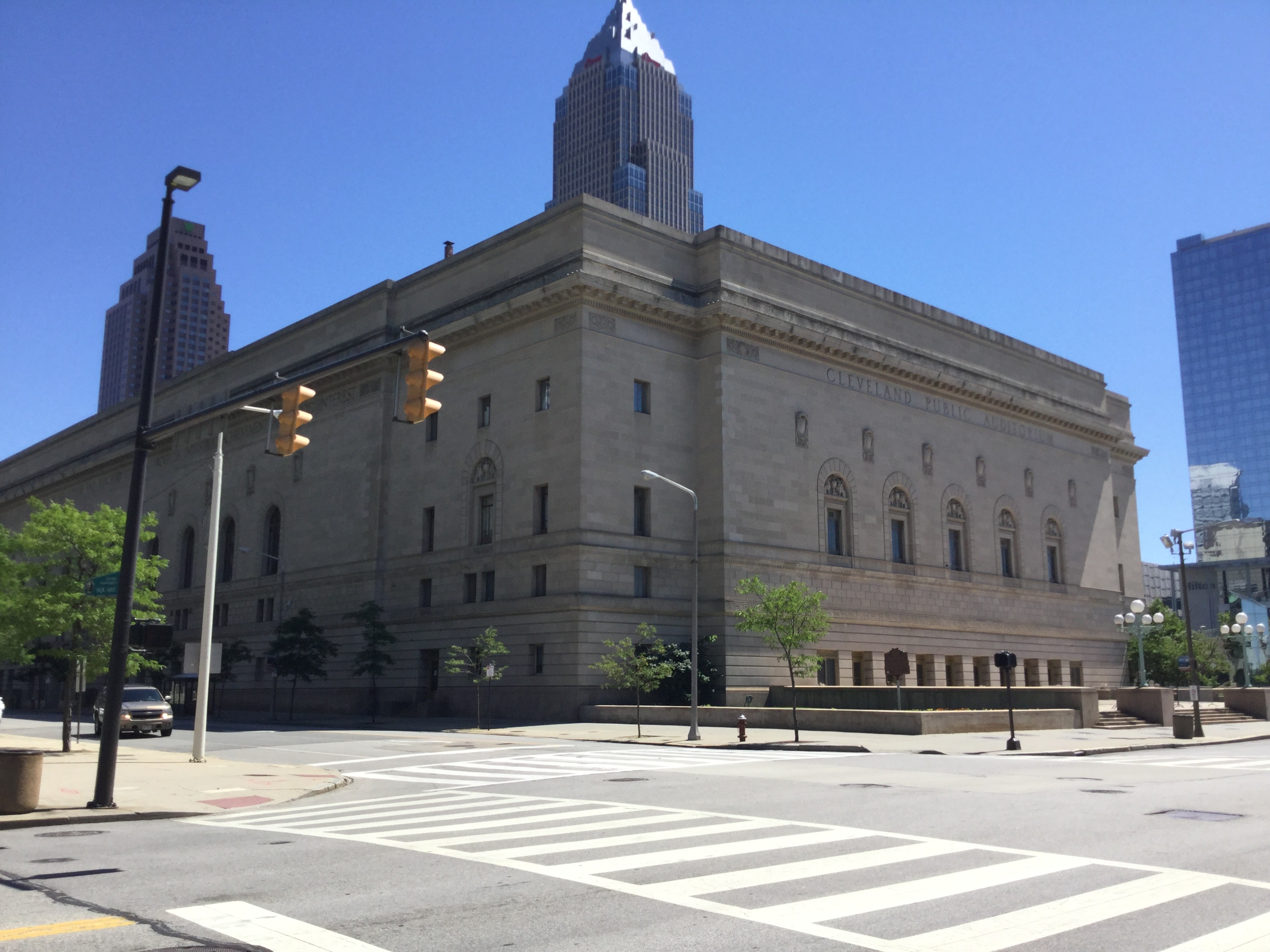 July 8, 2018